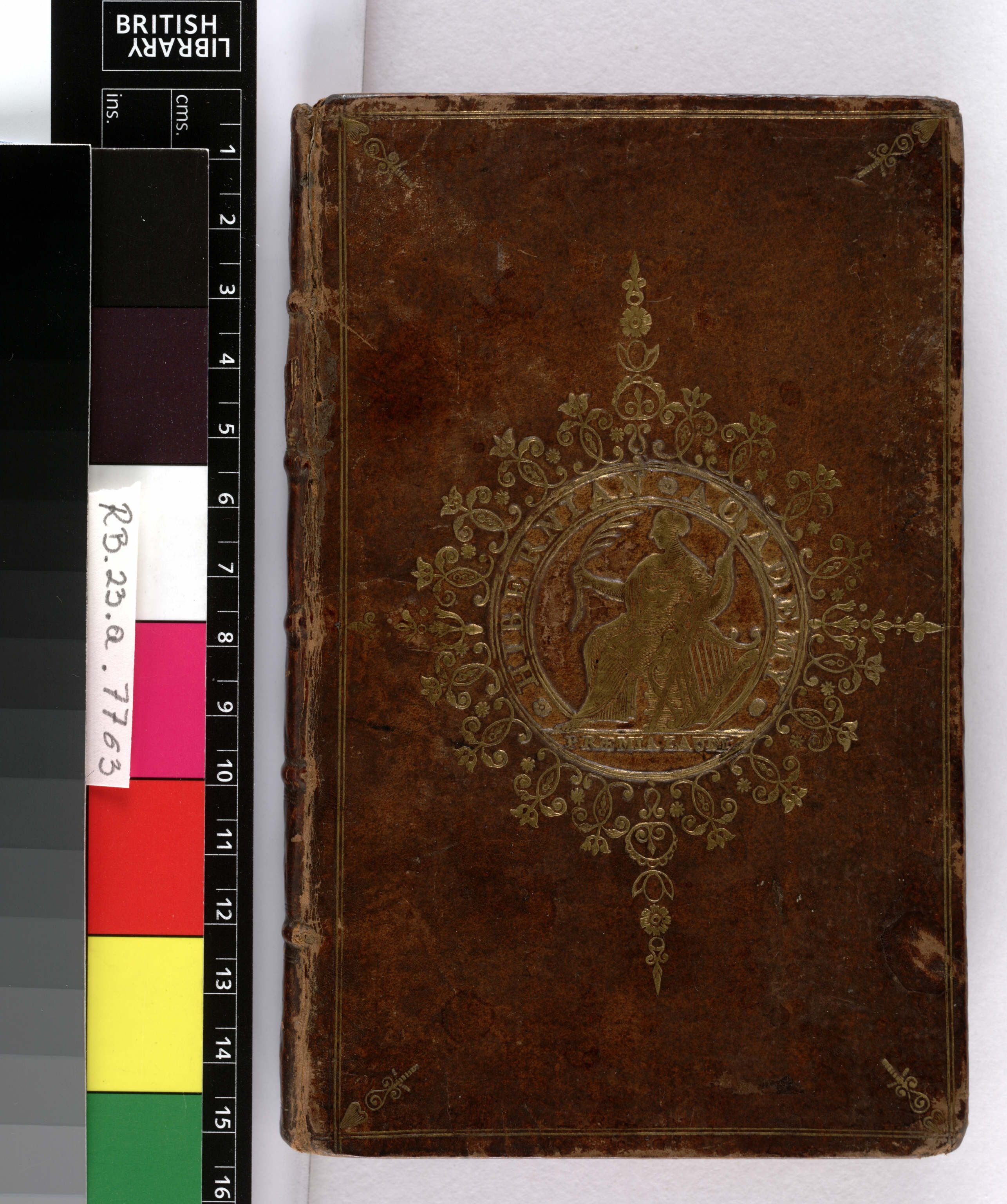 Style: Armorial; Caption: Upper cover; Colour: Brown; Edge: Unspecified